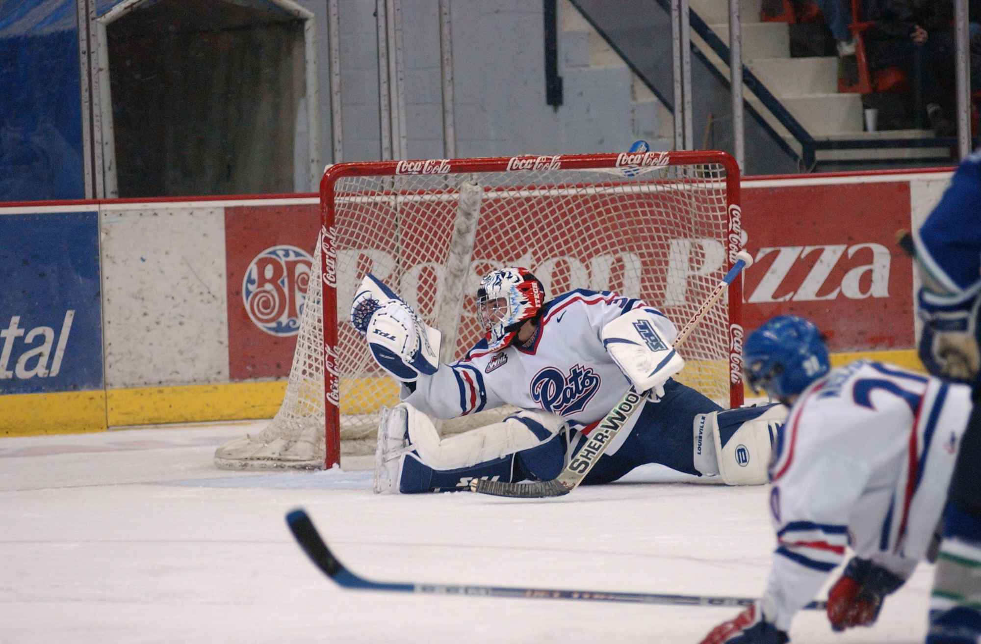 Goaltender Josh Harding playing for the Regina Pats of the Western Hockey League